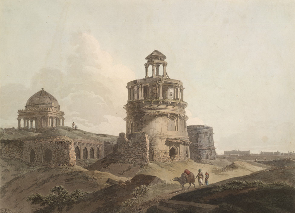 Remains of buildings at Firoze Shah Kotla, Delhi.